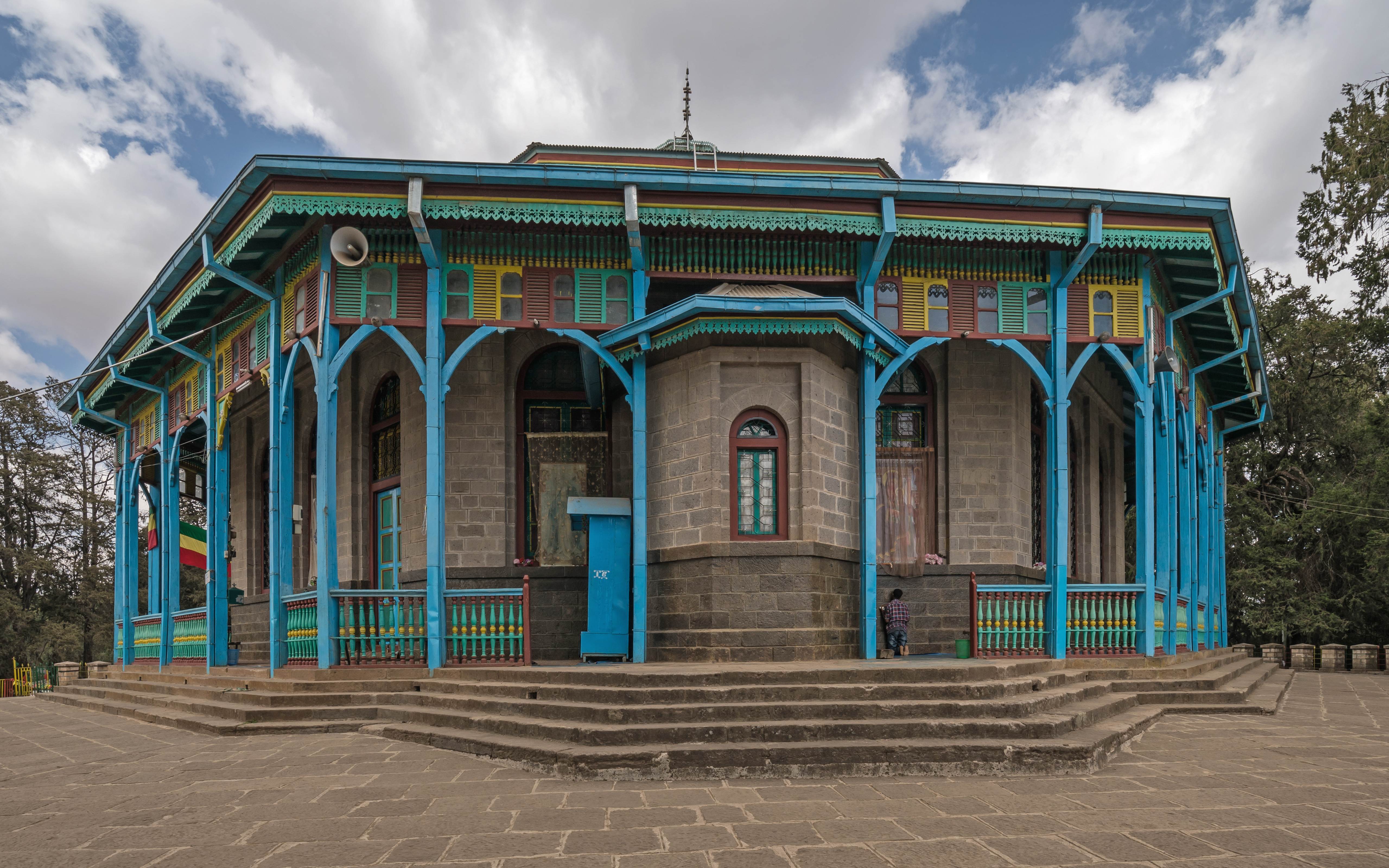 St. Mary Church on Entoto Mountain in Addis Ababa, Ethiopia